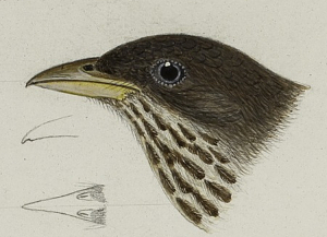 Description: This drawing or engravings of bird heads was used in Spencer F. Baird, Thomas Mayo Brewer, and Robert Ridgway's, A History of North American Birds: Land Birds, 3 volumes (Boston: Little, Brown, and Company, 1874) and The Water Birds of North America: Memoirs of the Museum of Comparative Zoology at Harvard College, vols. XII-XIII (Boston: Little, Brown, and Company, 1884). Heads drawn by Ridgway and Henry W. Elliott. Box: 47 Format: Drawings (visual works) Identifier: 547166 Collection: SIA RU007167, Robert Ridgway Papers, circa 1850s-1919. Repository: Smithsonian Institution Archives View more collections from the Smithsonian Institution.